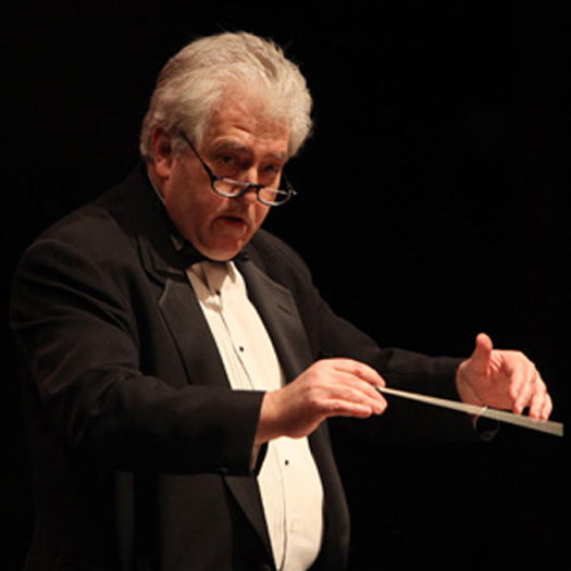 OSQ Spring 2010 - Maestro Close conducting